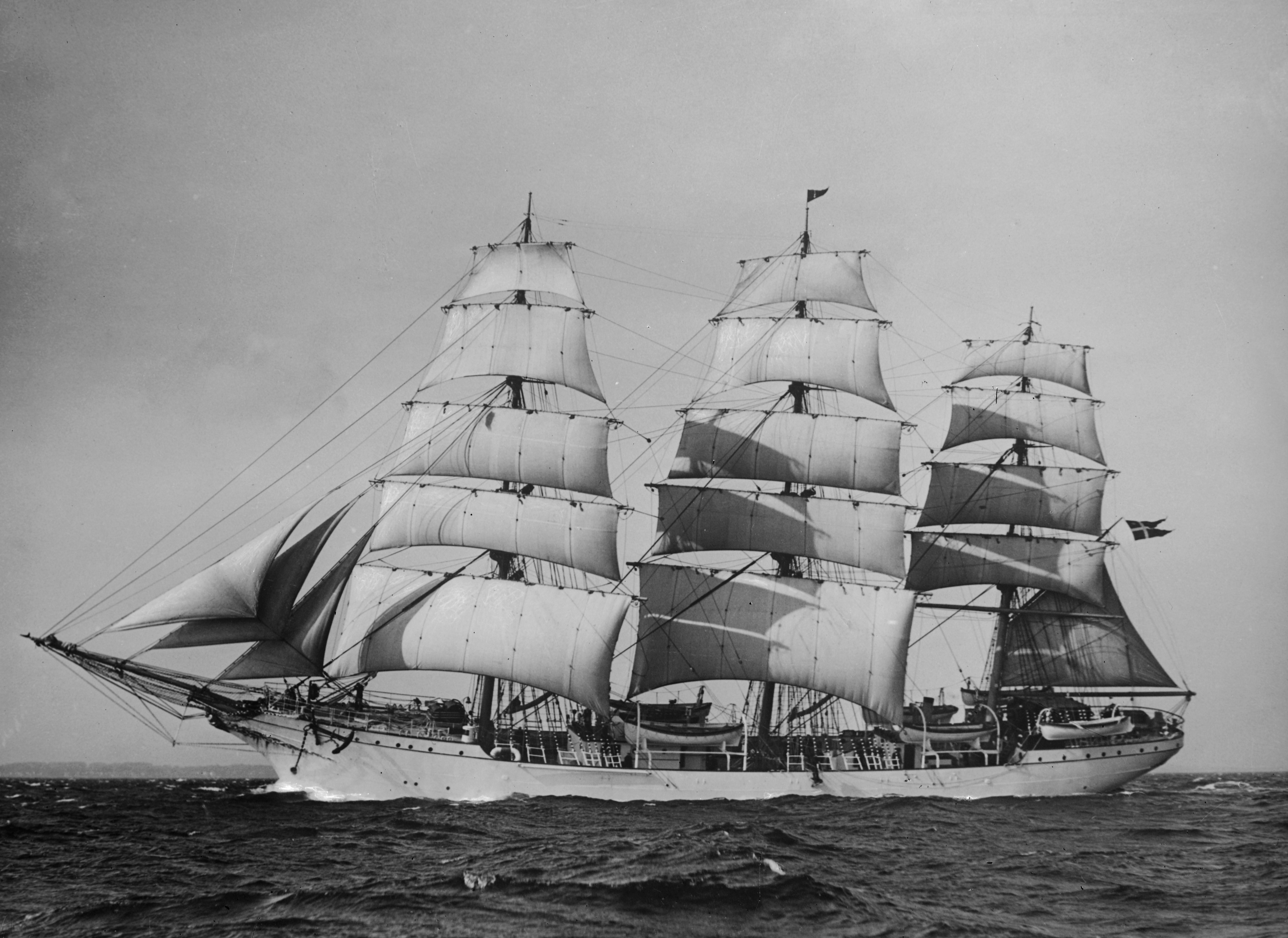 Original caption: “DENMARK [full rigged]”